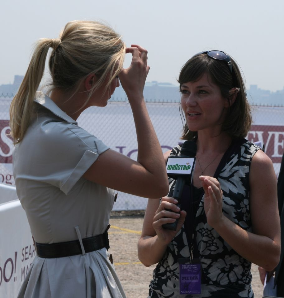 Lindsay Campbell of Wallstrip interviewing Ivanka Trump